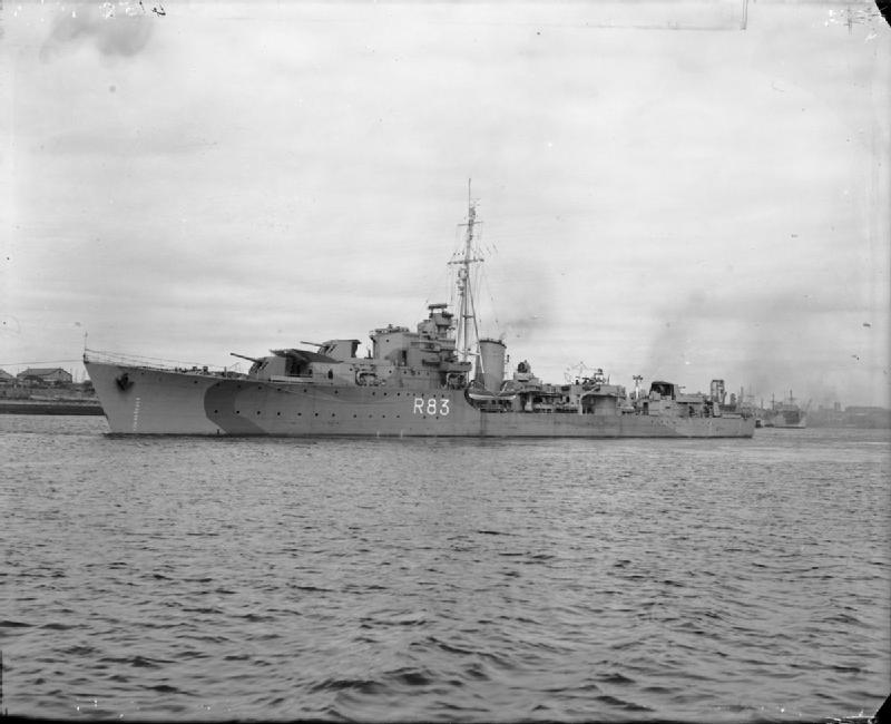 Photograph of British destroyer HMS Ulster under tow on the River Tyne.